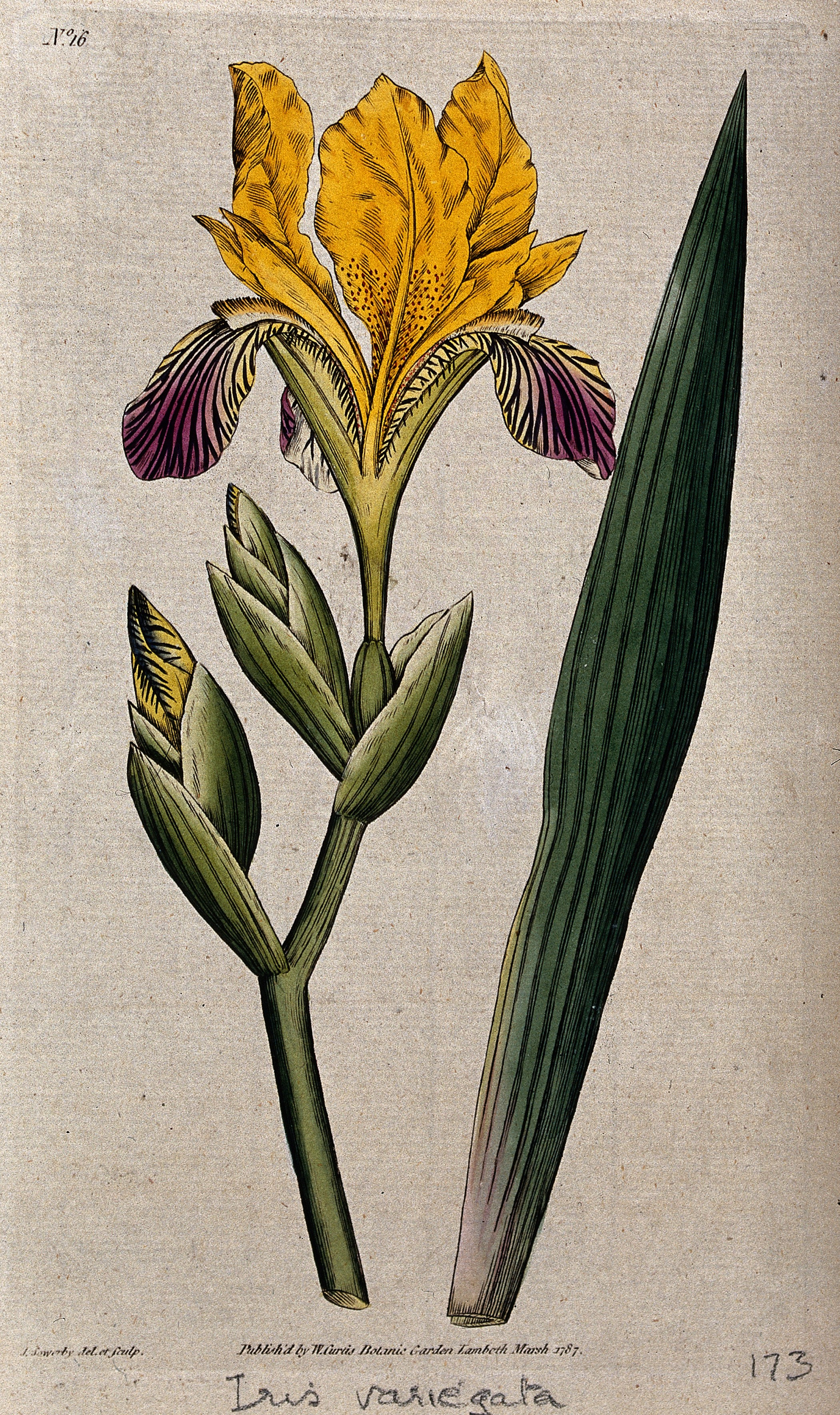 A yellow iris (Iris variegata): flower and leaf. Coloured engraving by J. Sowerby, c. 1787, after himself. Iconographic Collections Keywords: William Curtis; James Sowerby